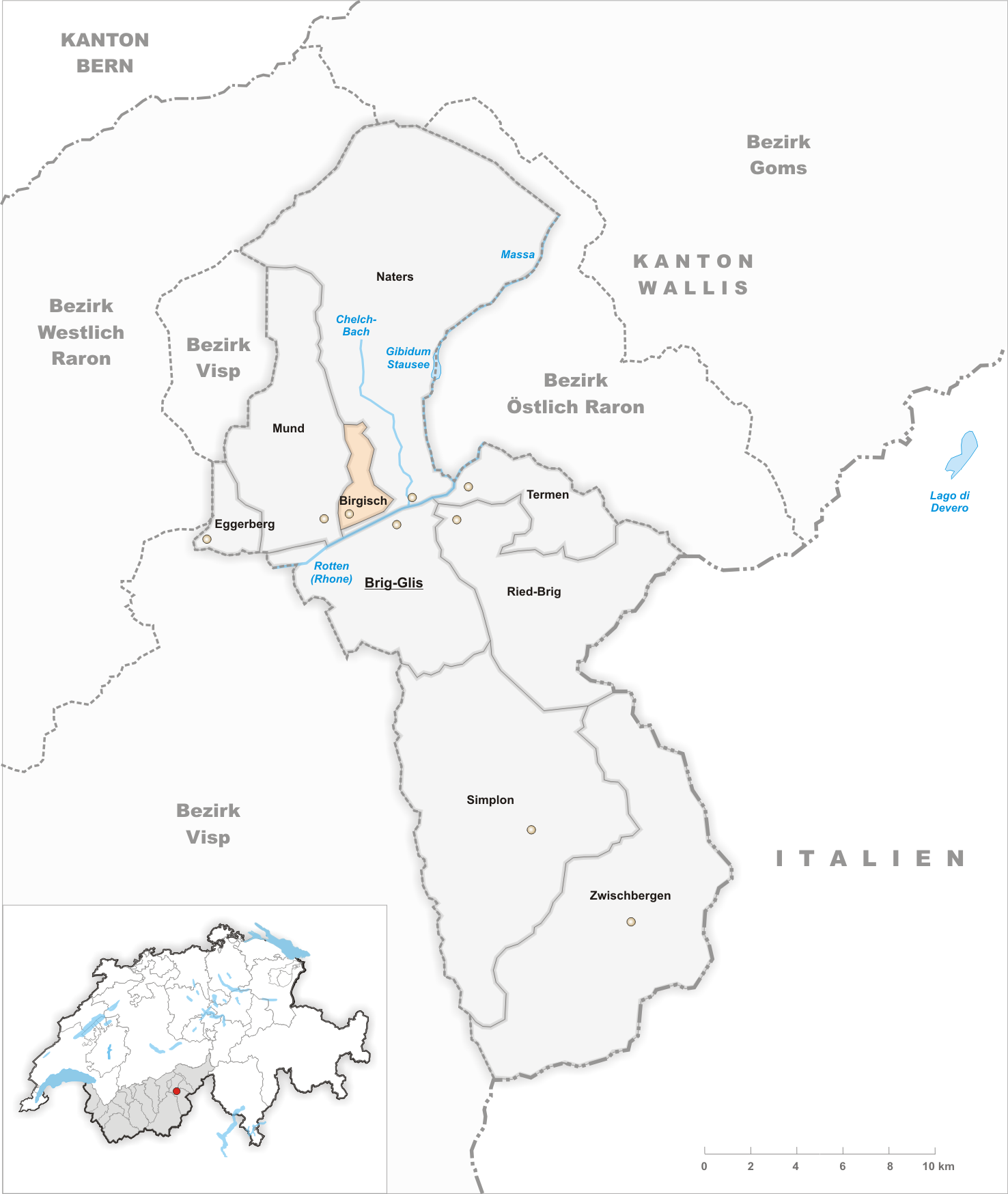 Municipality Birgisch